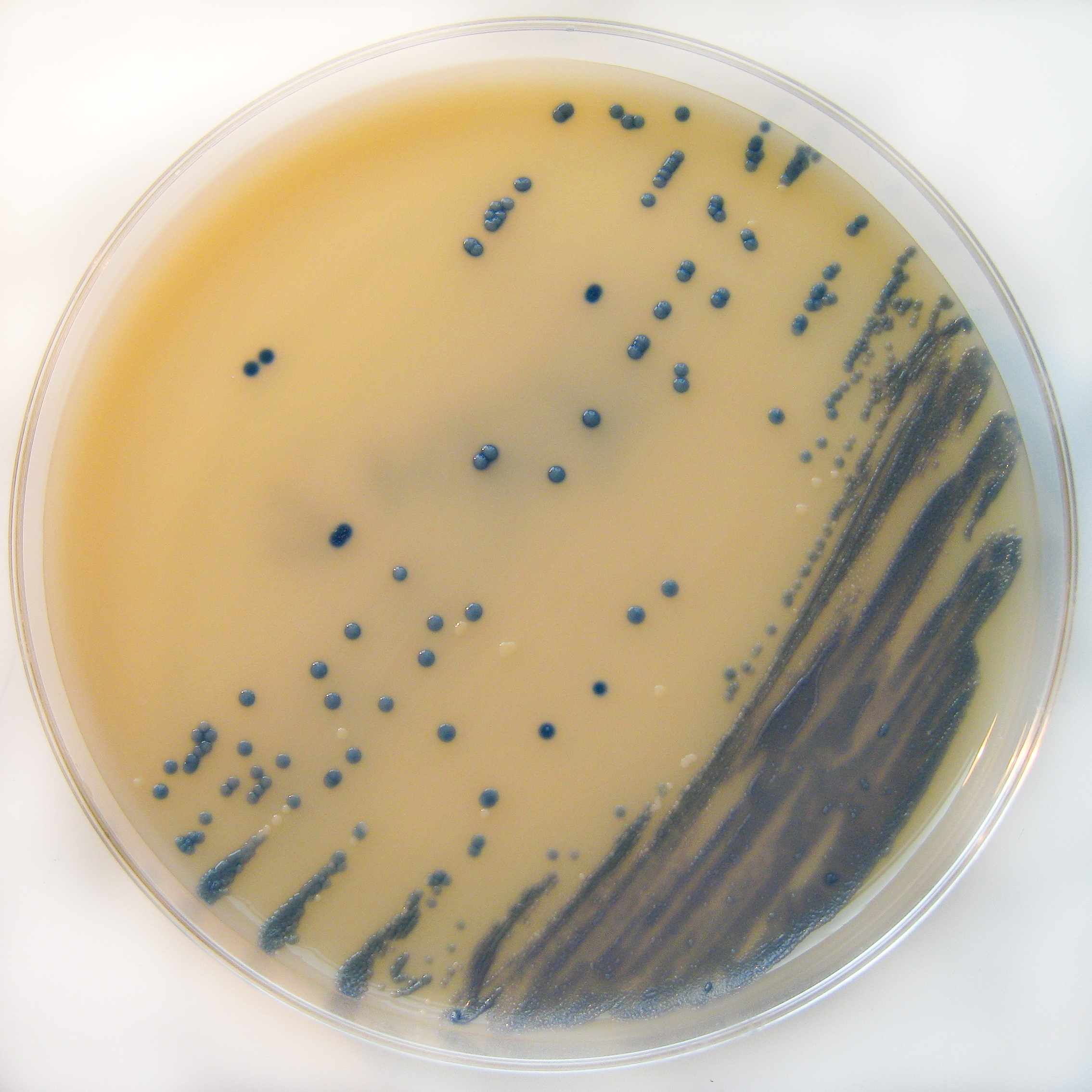 Meticillin/Methicillin resistant Staphylococcus aureus on Oxoid Brilliance/Spectra M.R.S.A. selective chromogenic agar